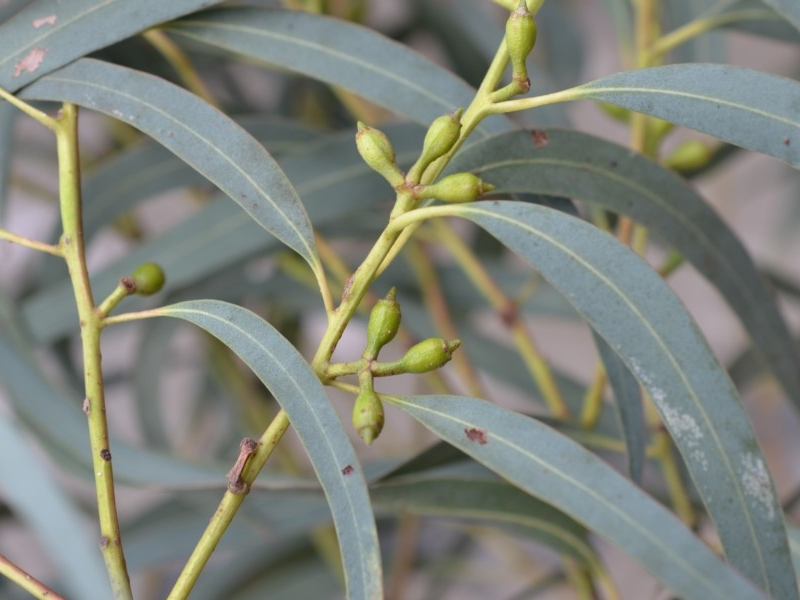 Flower buds of Eucalyptus wilcoxii near Brogo Dam